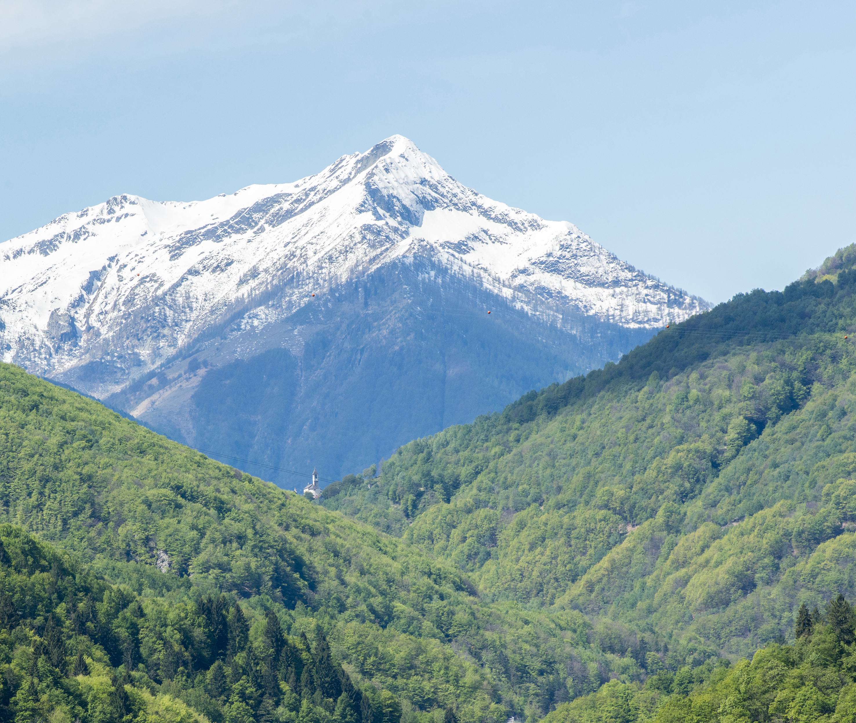 Progetto Parco Nazionale del Locarnese - View of San Michele of Palagnedra and Monte Togano from Calezzo